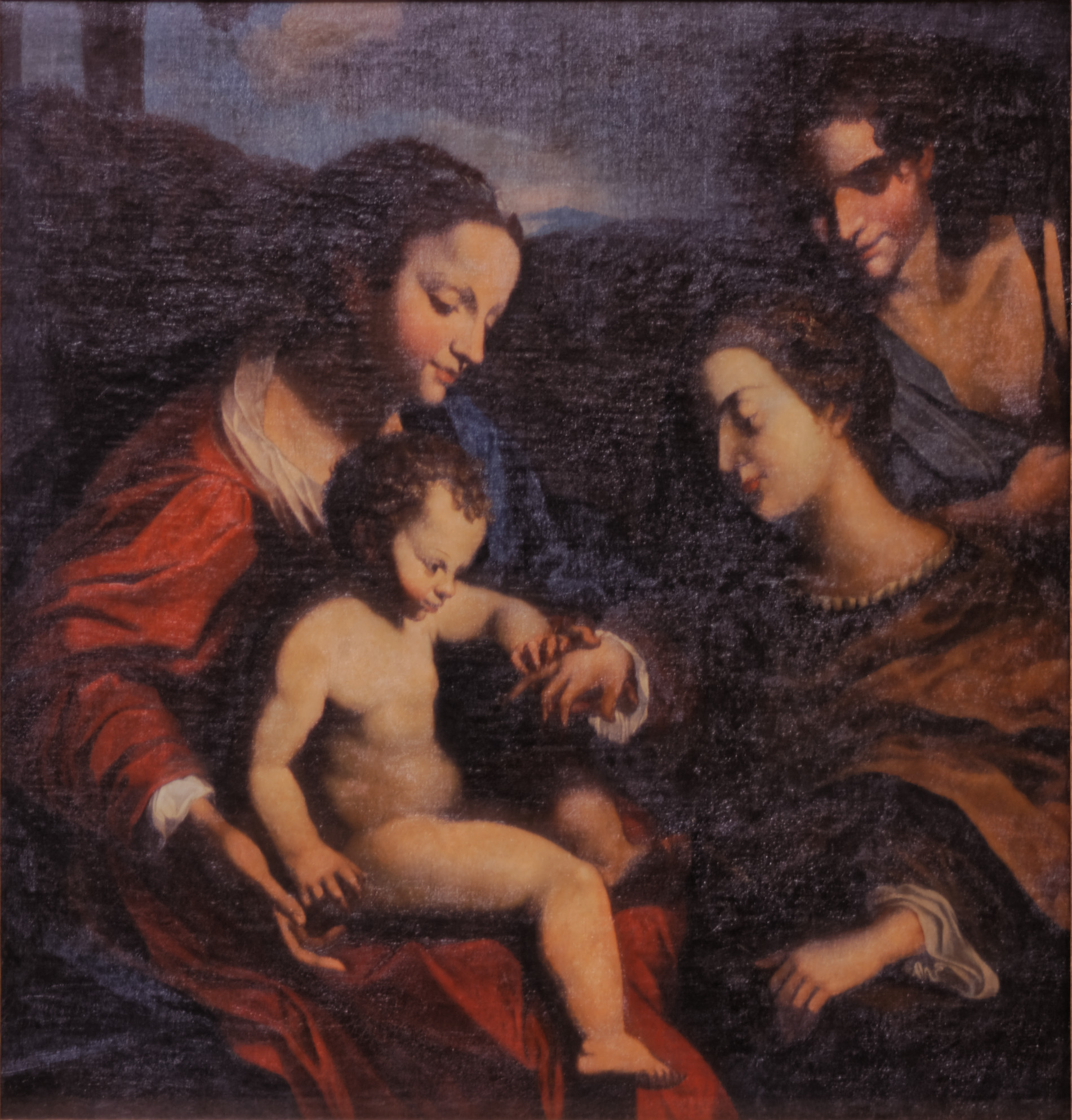 copy of Mystical Marriage of St. Catherine with Saint Sebastian of the Correggio.